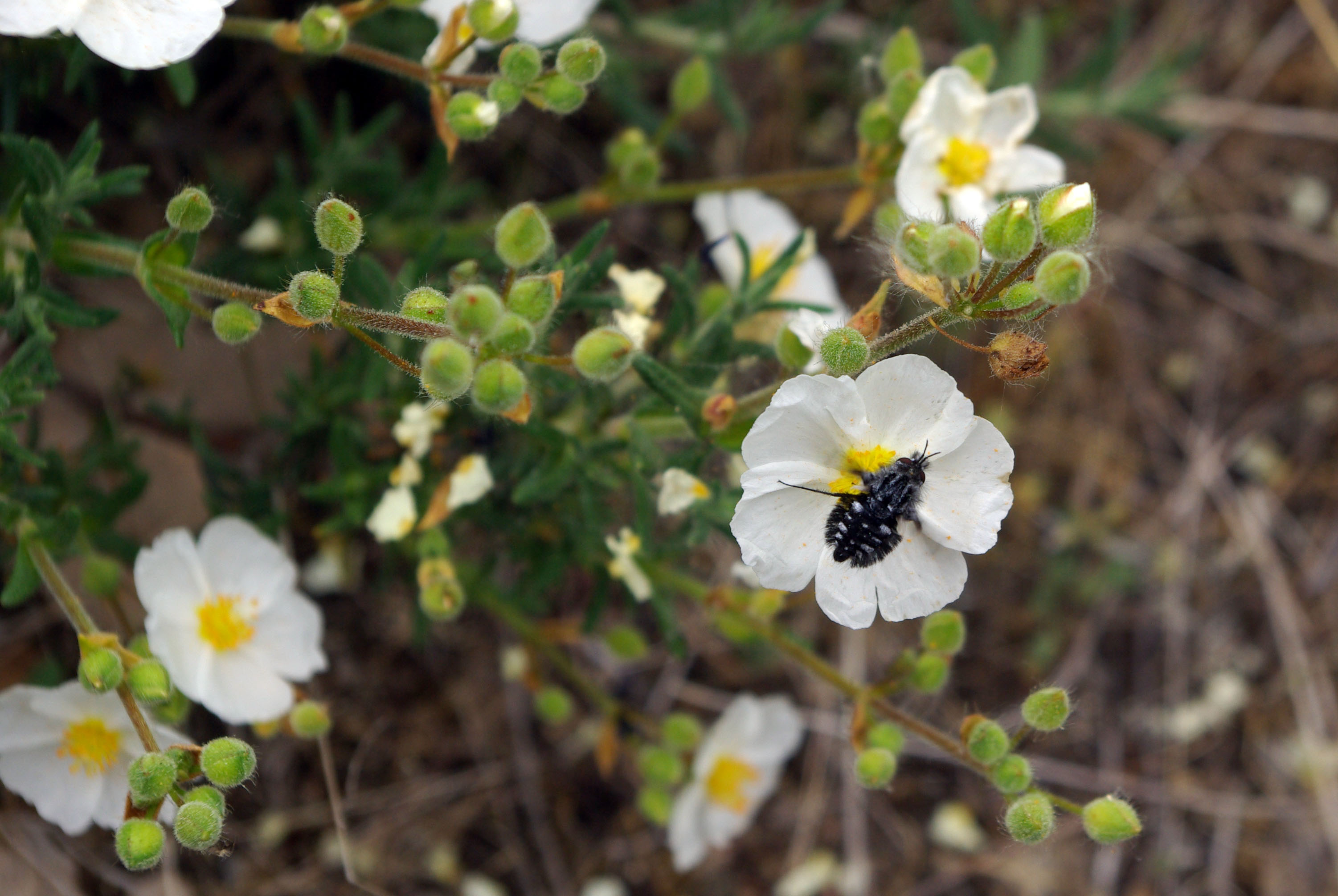 Fly (Anthrax sp.) over rockrose (Cistus sp.). Photo taken near Sotosalbos (Segovia, Spain)